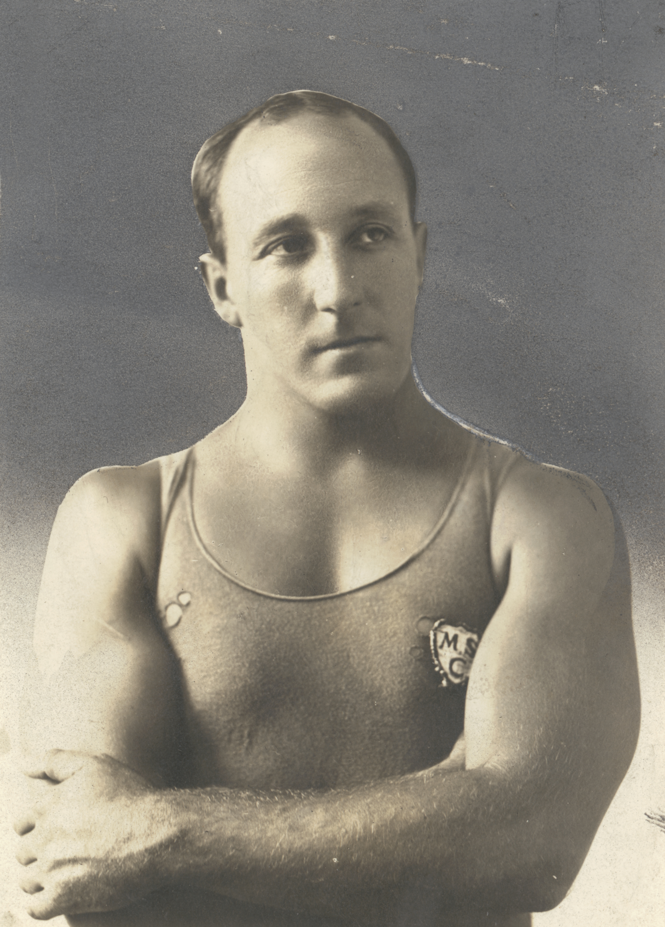 Biographical note: In the Stockholm Olympics, 1912, Healy entered the 100m event with fellow Australian Bill Longworth and American Duke Kahanamoku. All three qualified for the semi-final, with Kahanamoku clearly the fastest. Healy and Longworth then qualified from the first semifinal, but the three Americans, who were scheduled to qualify in the second semi-final did not, due an error by their team management. However, Healy intervened, saying if he was to win it would be against the best in the world. He assisted in an appeal to allow the Americans to swim another special race in order to qualify for the final. Despite protestation from other delegations, the Americans were allowed a separate race, with Kahanamoku qualifying for the final. In the final, Kahanamoku won easily, by 1.2s, over a bodylength, with Healy in second place. The two became lifelong friends and Kahanamoku lifted Healy's hand higher than his own in the victory salute on the dais. Healy invited the Duke to Australia and board riding was introduced to Australia. References: Wikipedia & Bombora - The Story of Australian Surfing (ABC Television) Format: Photograph Notes: Find more detailed information about this photograph: .au/cgi-bin/spydus/FULL/PM/BSEARCH/17/52... Search for more great images in the State Library's collections: .au/search/SimpleSearch.aspx From the collection of the State Library of New South Wales